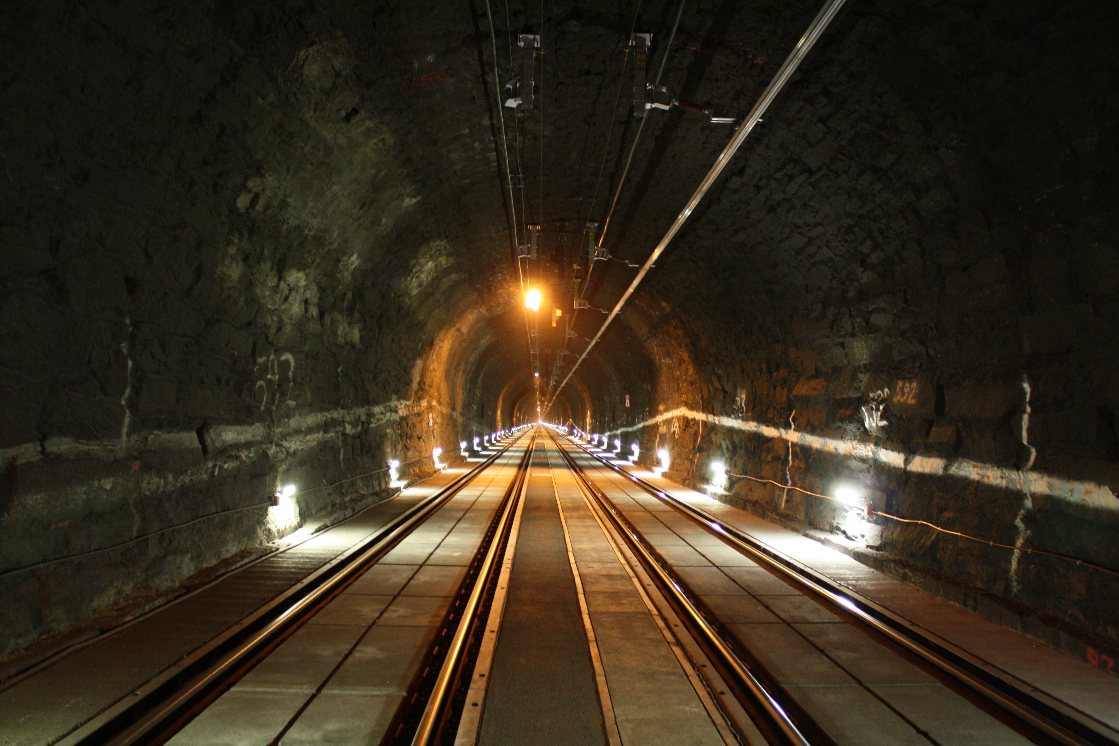 Arlberg tunnel at km 104.8, perspective view in the direction of Langen am Arlberg. In the course of extensive rehabilitation works the Arlberg tunnel was equipped with a slab track to enable road vehicles entering the tunnel in case of an emergency. To get a larger clearance gauge the new tracks were lowered and the overhead lines were substituted by overhead conductor rails. At the southern track (left) the conductor rail is not yet installed.